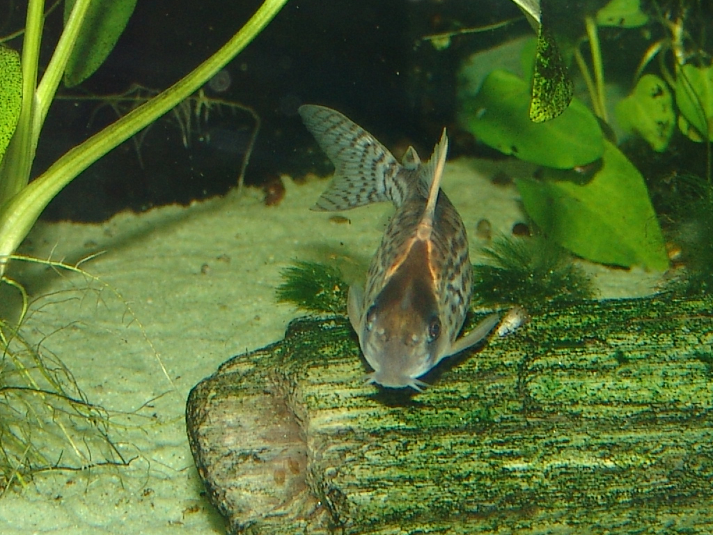 Corydoras schwartzi front